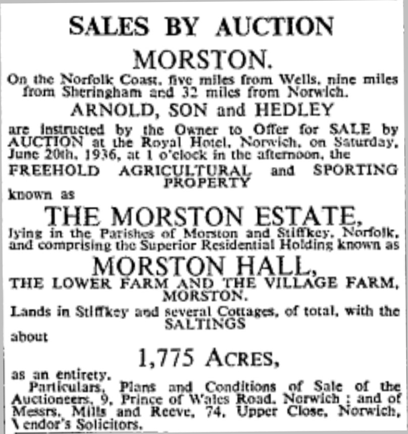 Advertisement for the sale of Morston Hall, Holt, Norfolk 1936